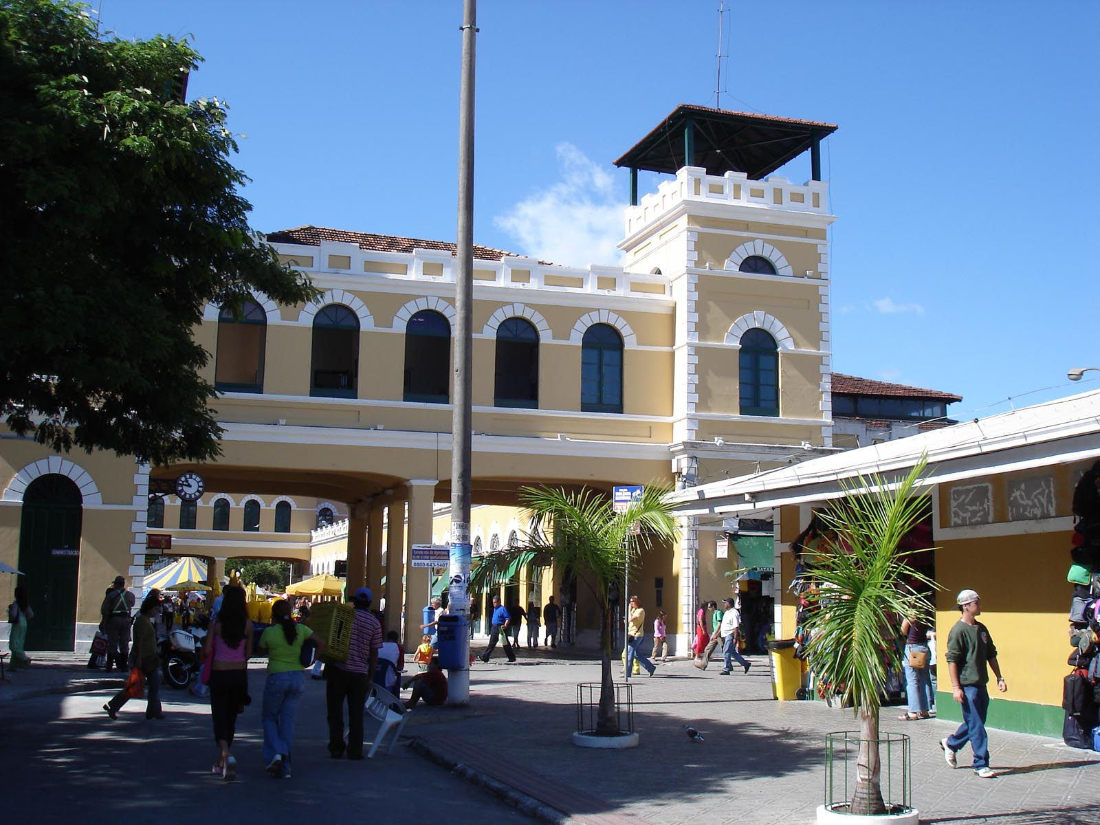 Public market of Florianópolis, Brazil.